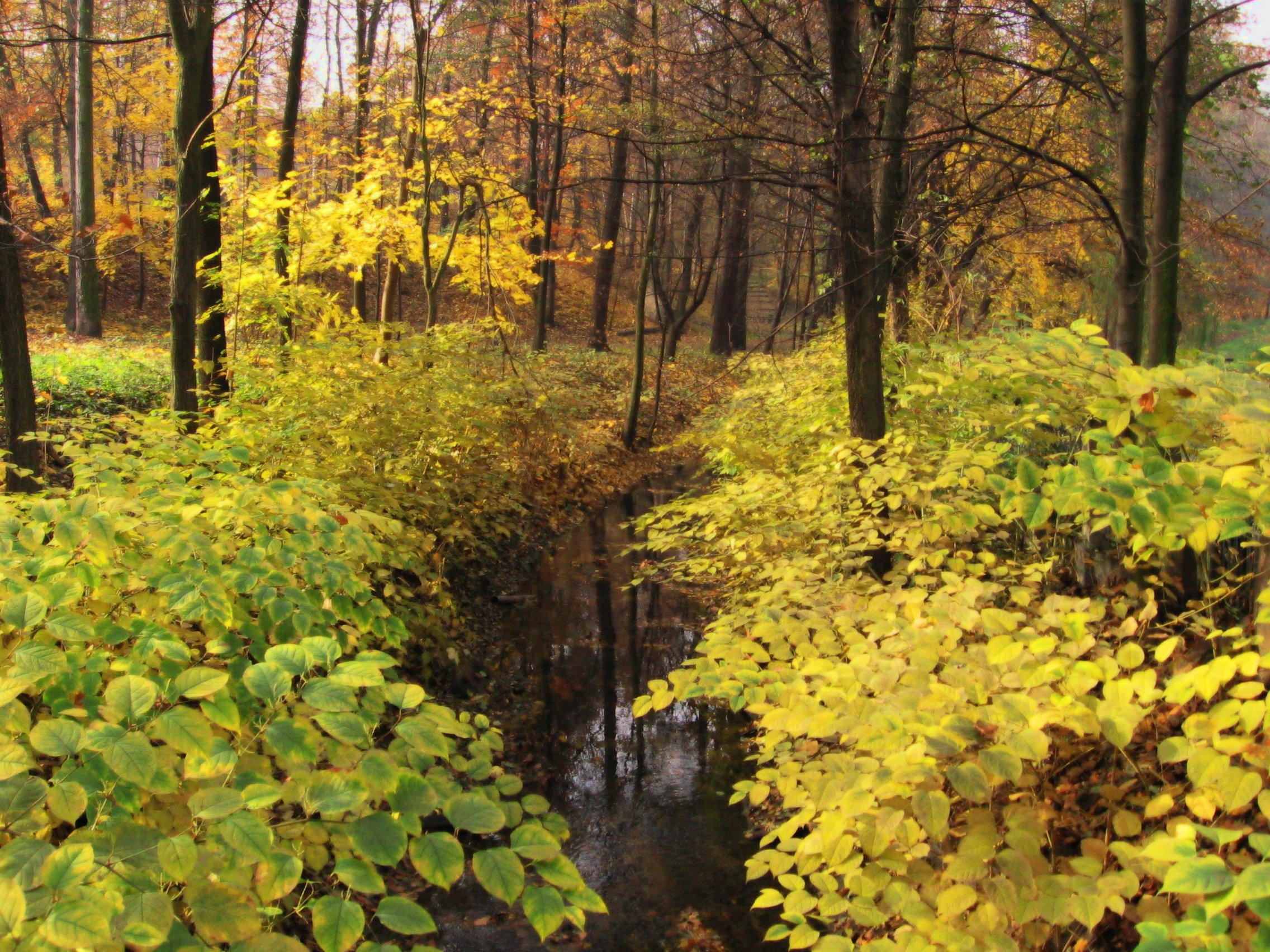 Kłodnica river